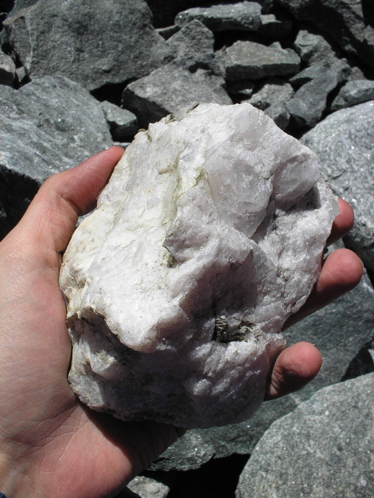 Photograph of a quartz rock taken in Ust-Koksinsky District of the Altai Republic